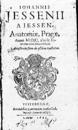 Cover of Anatomiae writed by Ján Jesenský in 1600